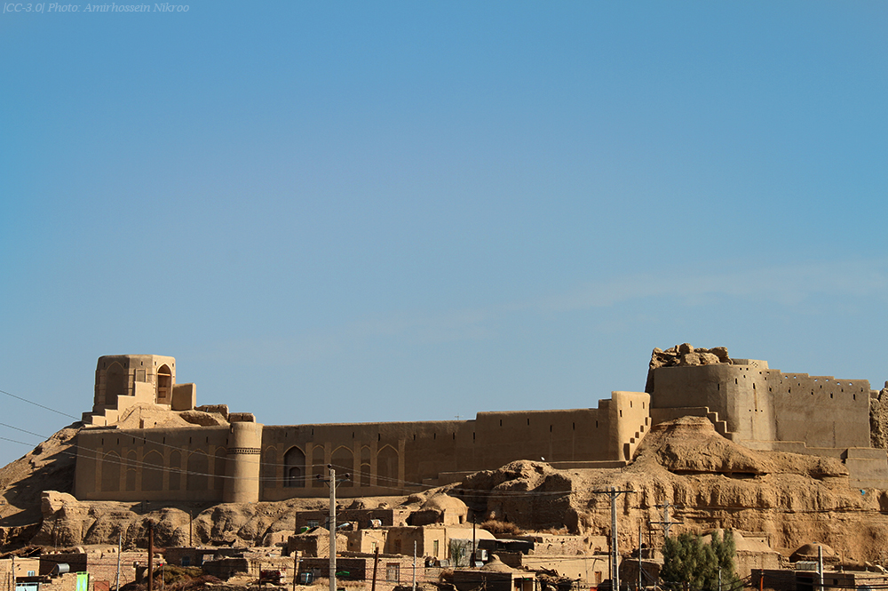 Se-Koohe Castle in Sistan and Baluchestan